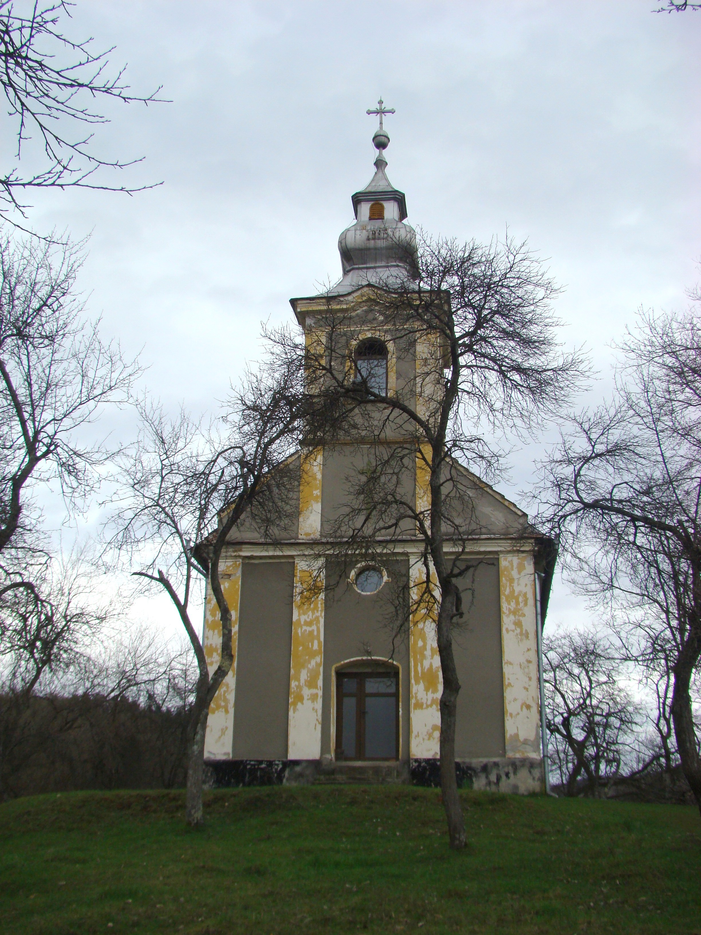 Slatina de Mureș, Arad county, Romania